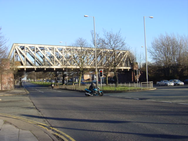 Railway Bridge, Walton Hall Avenue. Iron railway bridge crossing Walton Hall Avenue. This line was always busy with goods trains accessing the docks but a number of passenger services used this line, north to Southport and to the South trains served destinations to Liverpool and to Manchester. The CLC North Liverpool Extension line was always very busy on Grand National days as express trains from all over the country used it to access Aintree Central. The first major service to be withdrawn was the Southport Service which finished on 7th January 1952. A local service from Aintree Central to Manchester with some peak services to Liverpool continued until 7th November 1960. The last goods trains ran in August 1975. Today the route is part of the National Cycleway Network Route 62 which is The Trans Pennine Trail.